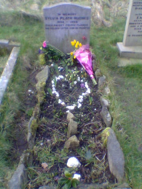 Sylvia Plath's grave at Heptonstall church, West Yorkshire, England.